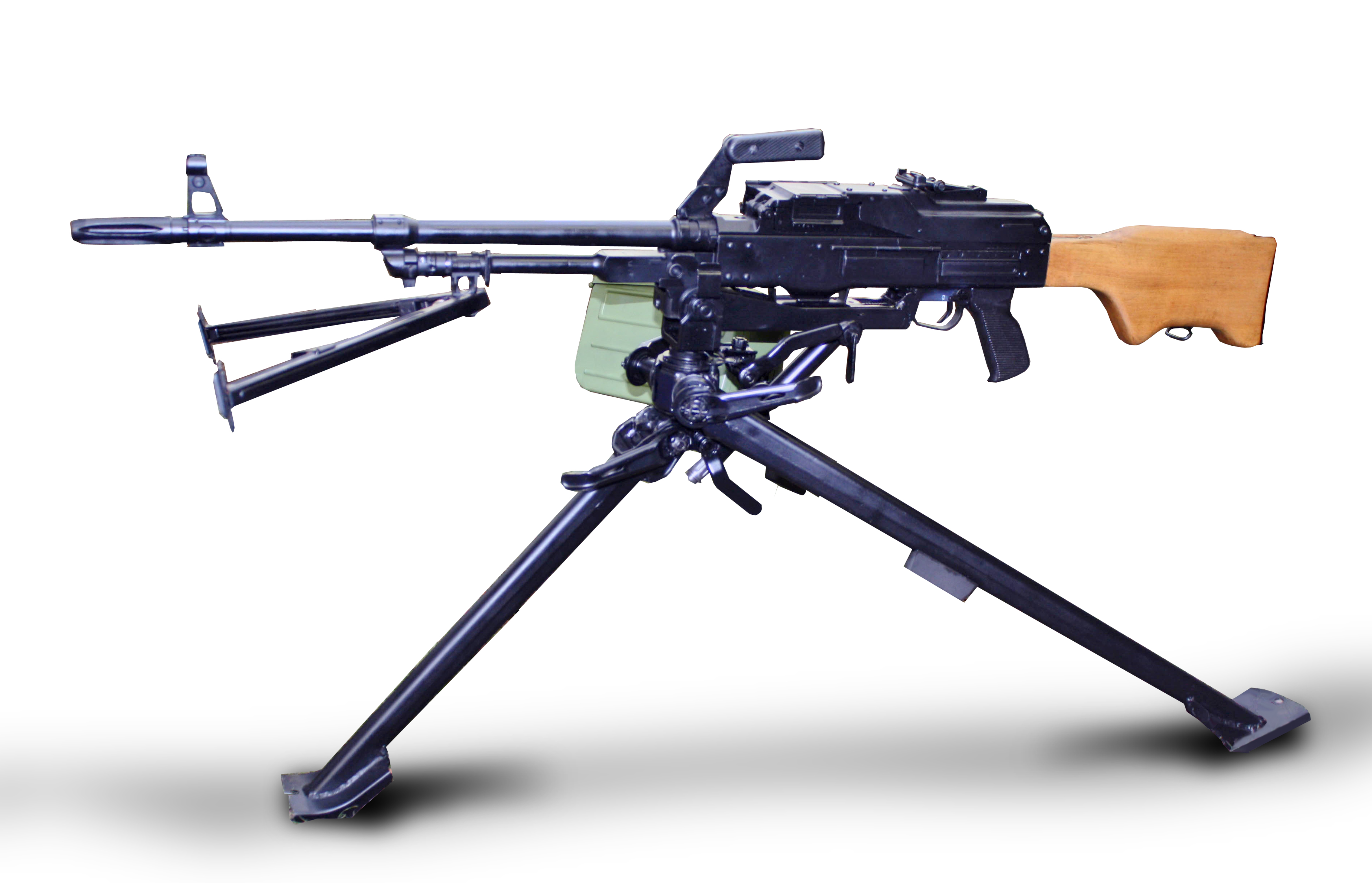 Zastava M84 machine gun